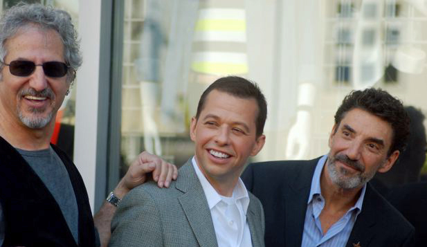 Lee Aronsohn, Jon Cryer, and Chuck Lorre at a ceremony for Cryer to receive a star on the Hollywood Walk of Fame in September 2011.